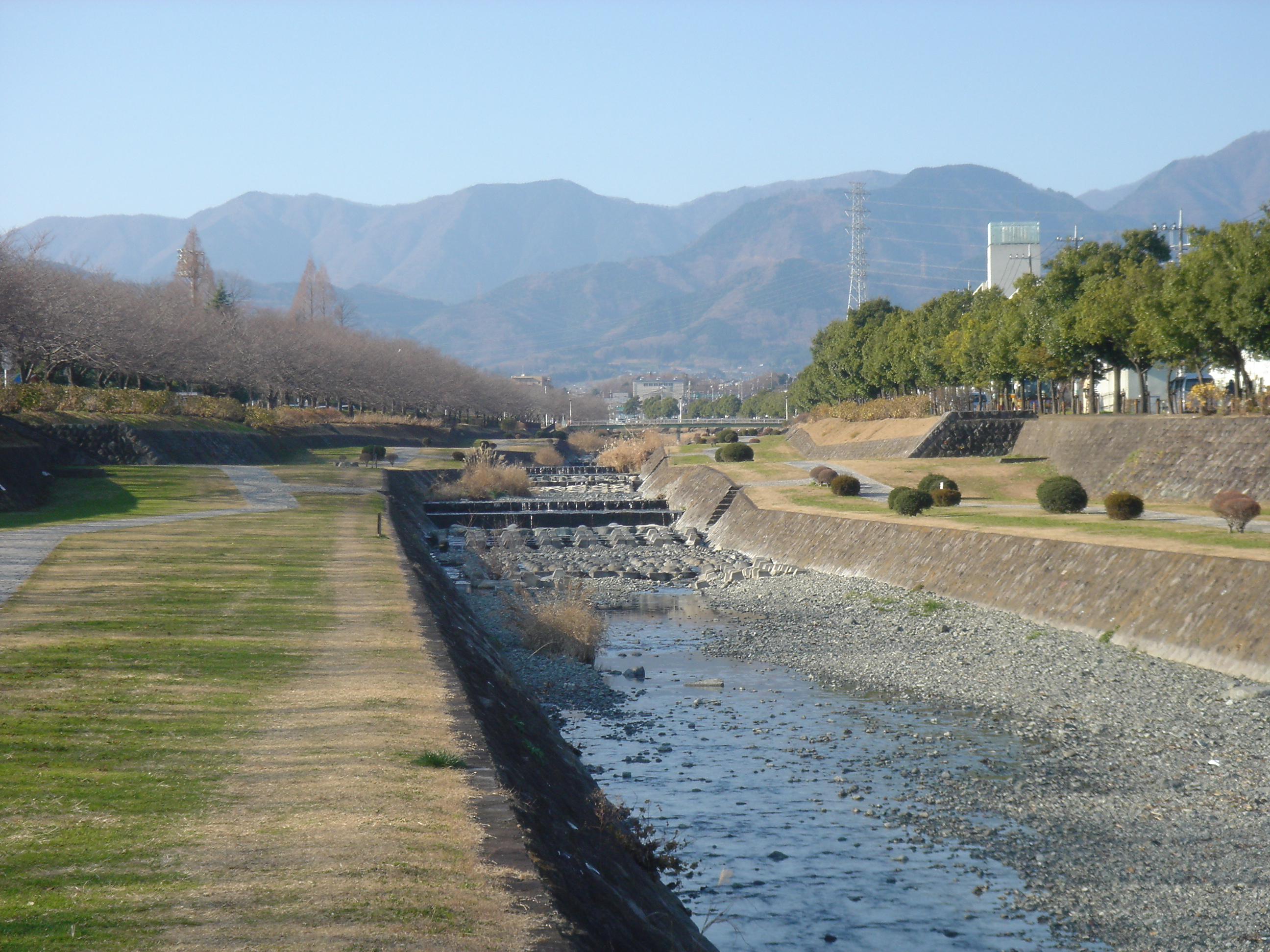 Mizunashi River,a tributary of the Kaname River,taken in Hadano city.